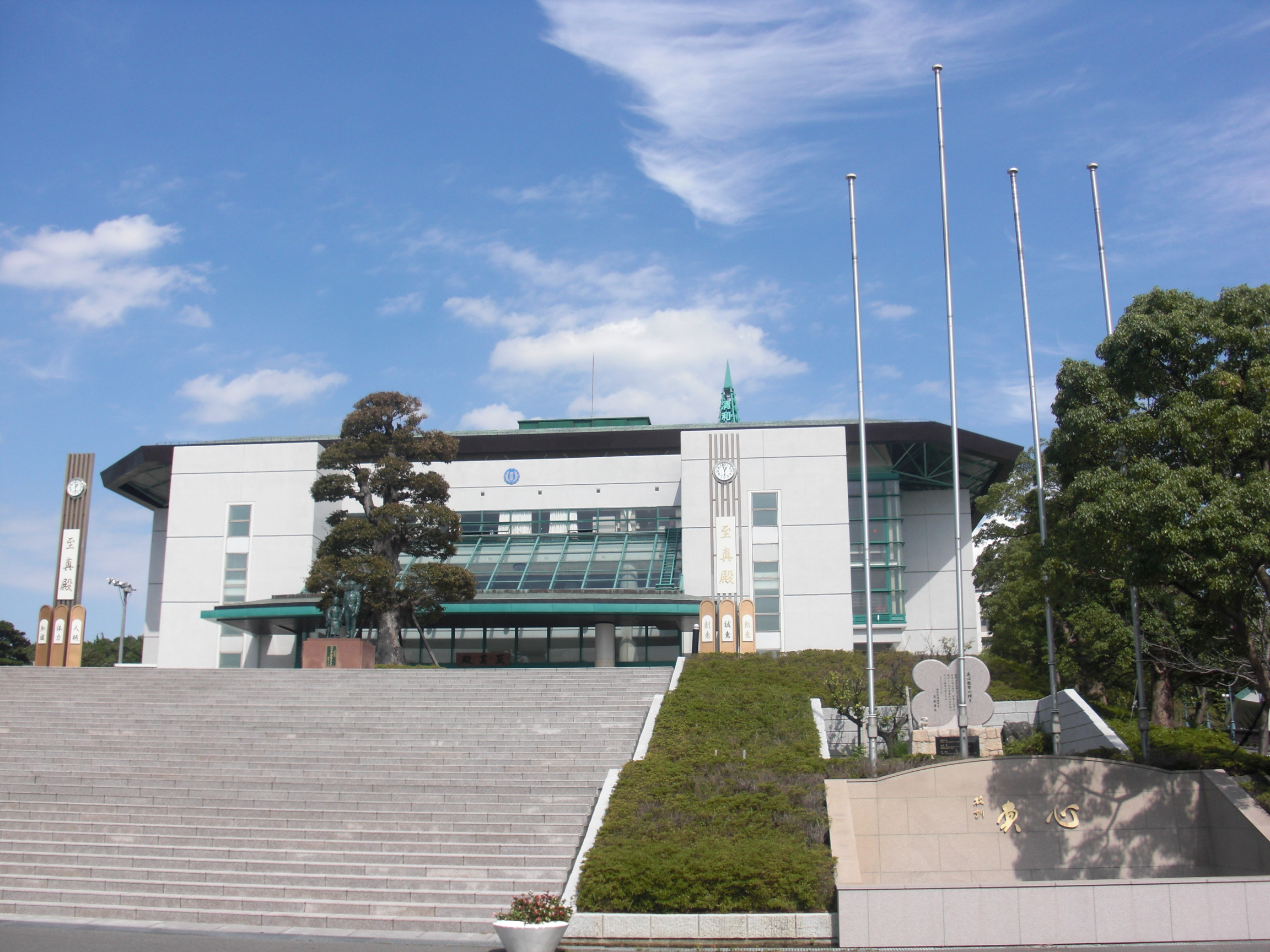 This is the Kisarazu Sogo high School's gym called "Shishinden".